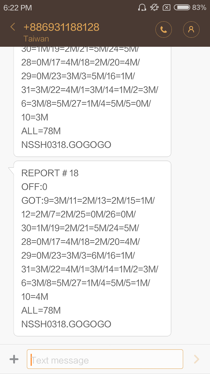 This message is directly screenshot from my cellphone. It shows that we have a HQ distributing messages.